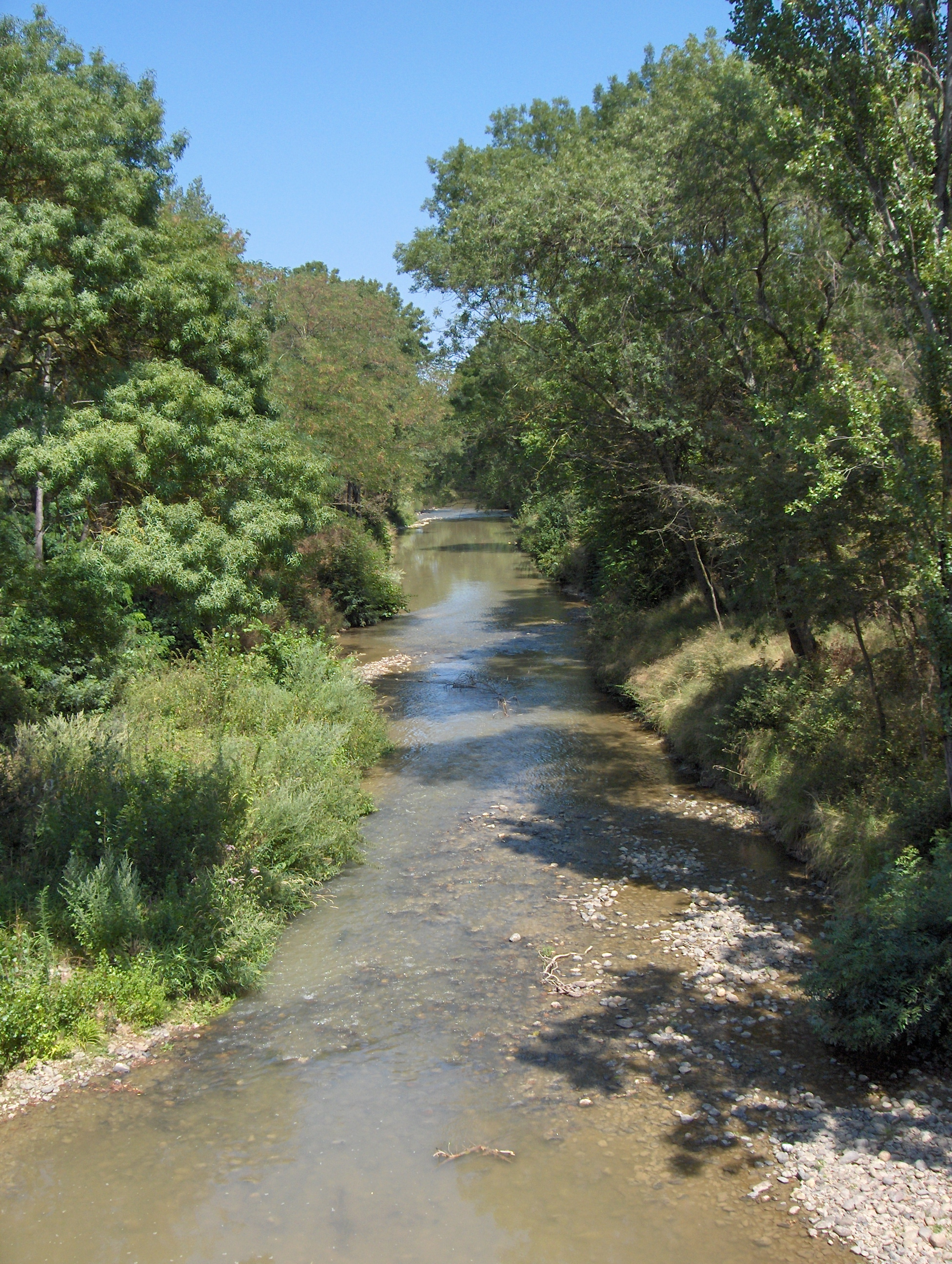 Touch river seen from a bridge in Plaisance-du-Touch (Haute-Garonne, France).